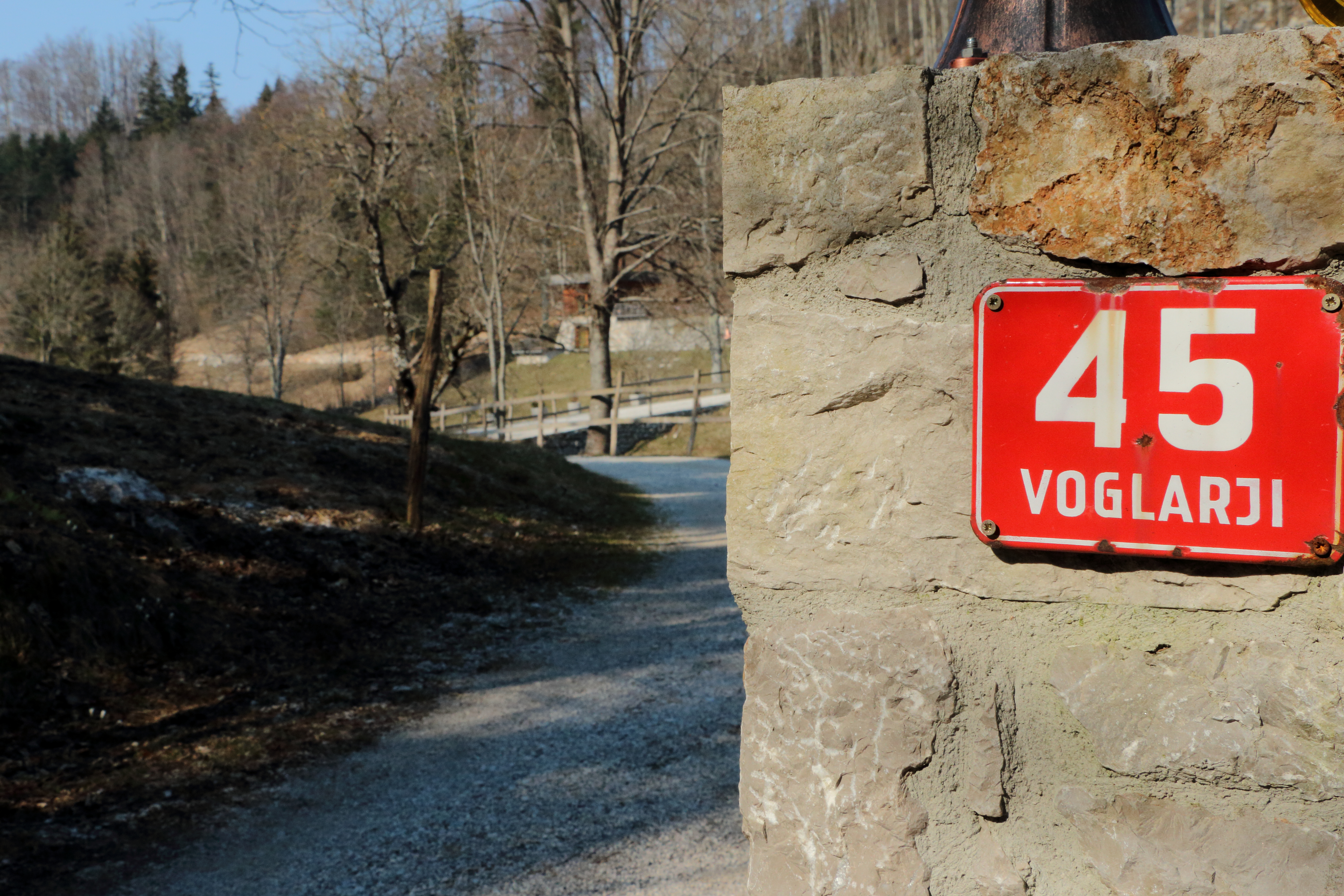 Kick Off Meeting with all partners involved, in Slovenia